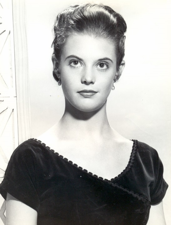 Lois Smith in 1955